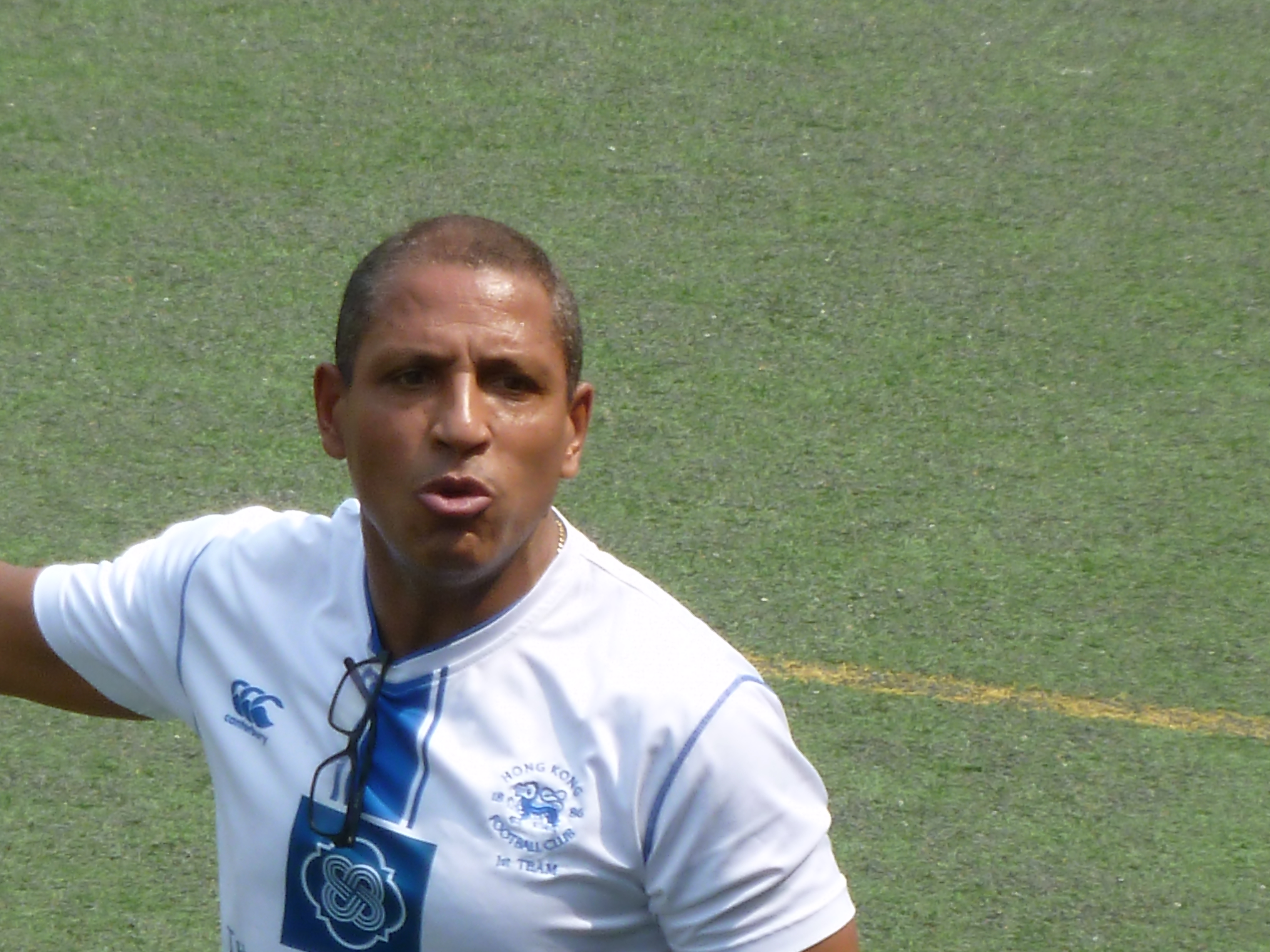 Tony Sealy (13 Apr 2014, Hong Kong 2nd Division League, Wing Yee vs Hong Kong FC, Po Kong Village Road Park) 中文（香港）: 東尼施利 (13 Apr 2014, 香港乙組足球聯賽, 永義 vs 港會, 蒲崗村道公園)